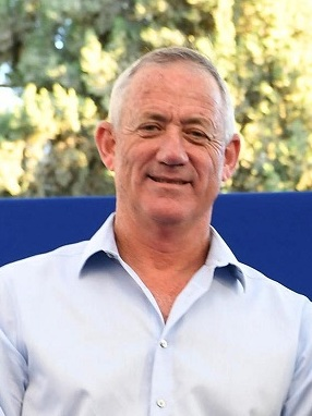 The President of Israel, Reuven Rivlin, presented the "President's Award for Volunteerism" for the year 2016-2017, at a ceremony at Beit HaNassi. Wednesday, June 28, 2017. Photo Credit: Mark Neyman / GPO.